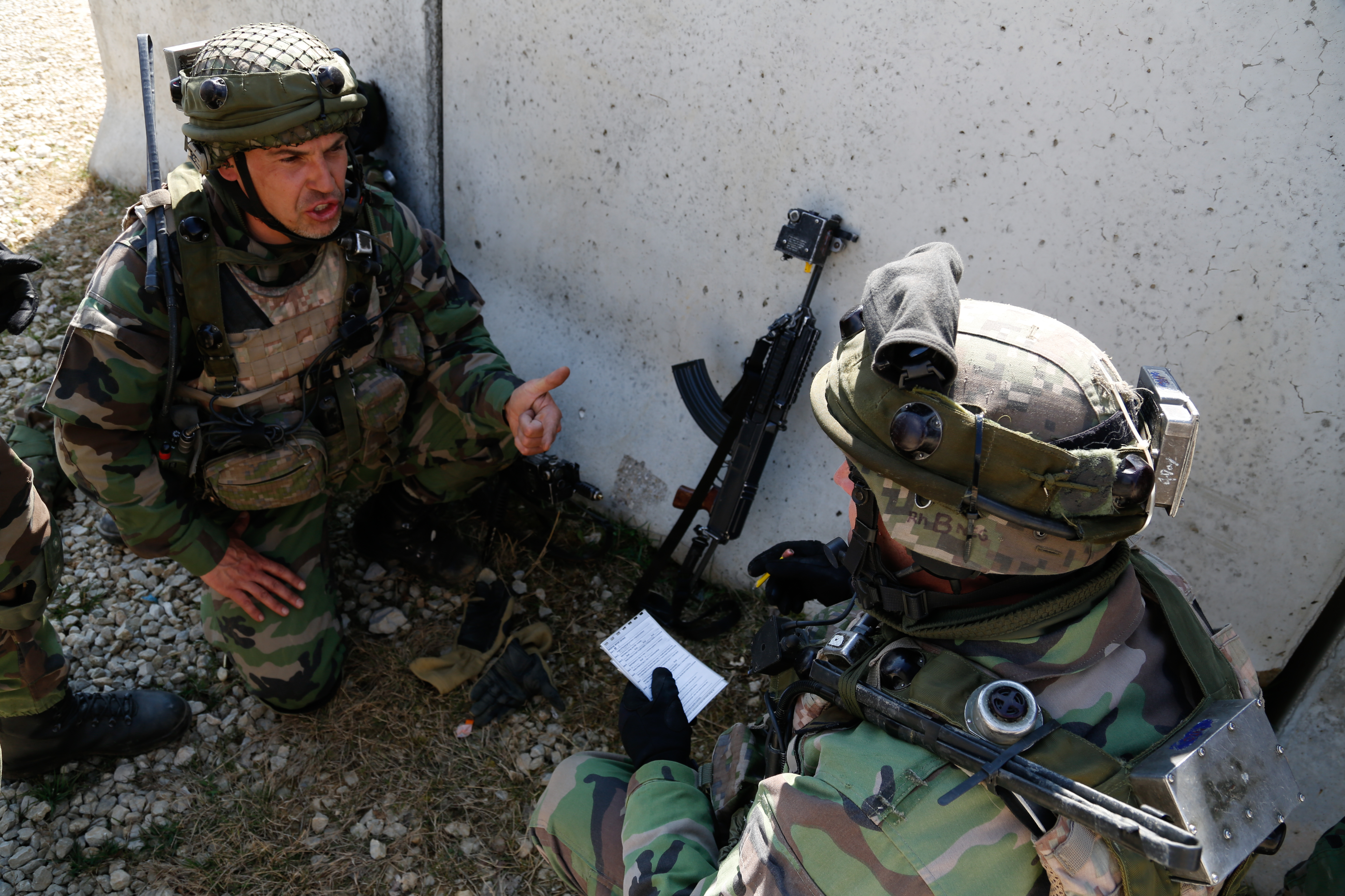 Slovakian soldiers of Mobile Security Force, Security Force Assistant Team prepare to transmit at 9-line medical evacuation report during a Military Advisor Team (MAT) and Police Advisor Team (PAT) training exercise at the Joint Multinational Readiness Center in the Hohenfels Training Area, Germany, March 27, 2014. The intent of the training exercise is to prepare MATs and PATs for deployment to Afghanistan with the ability to train, advise and enable the Afghan National Security Forces while possessing the skills to survive on the battlefield. (U.S. Army photo by Spc. Bryan Rankin/Released)